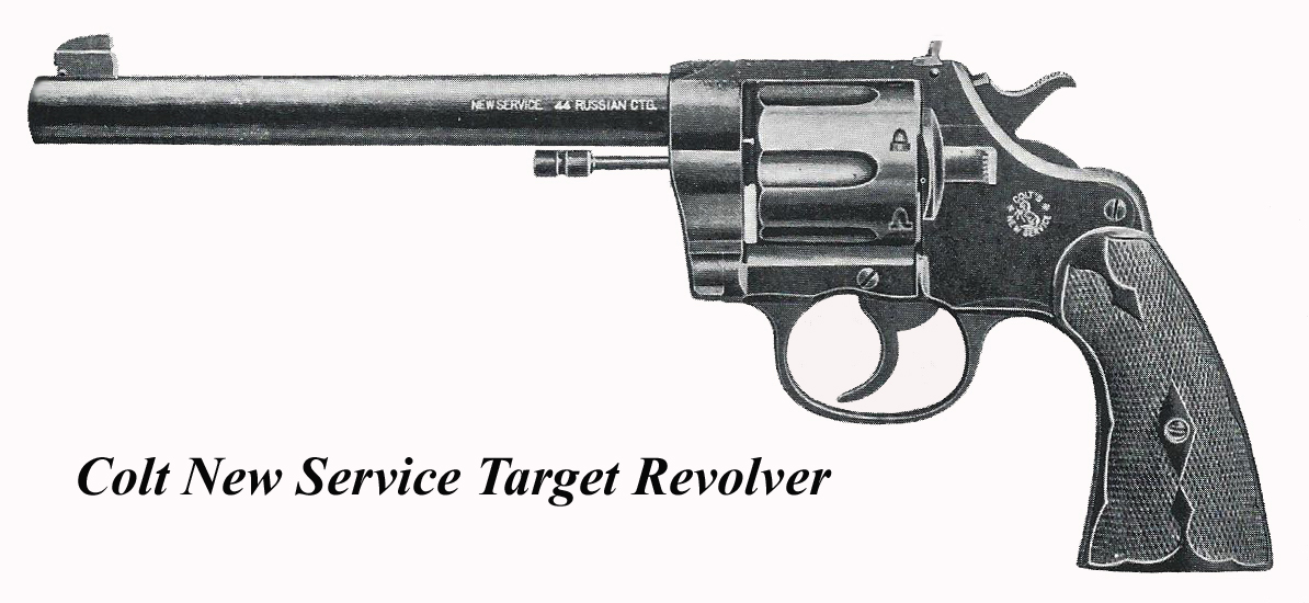 Colt New Service Target